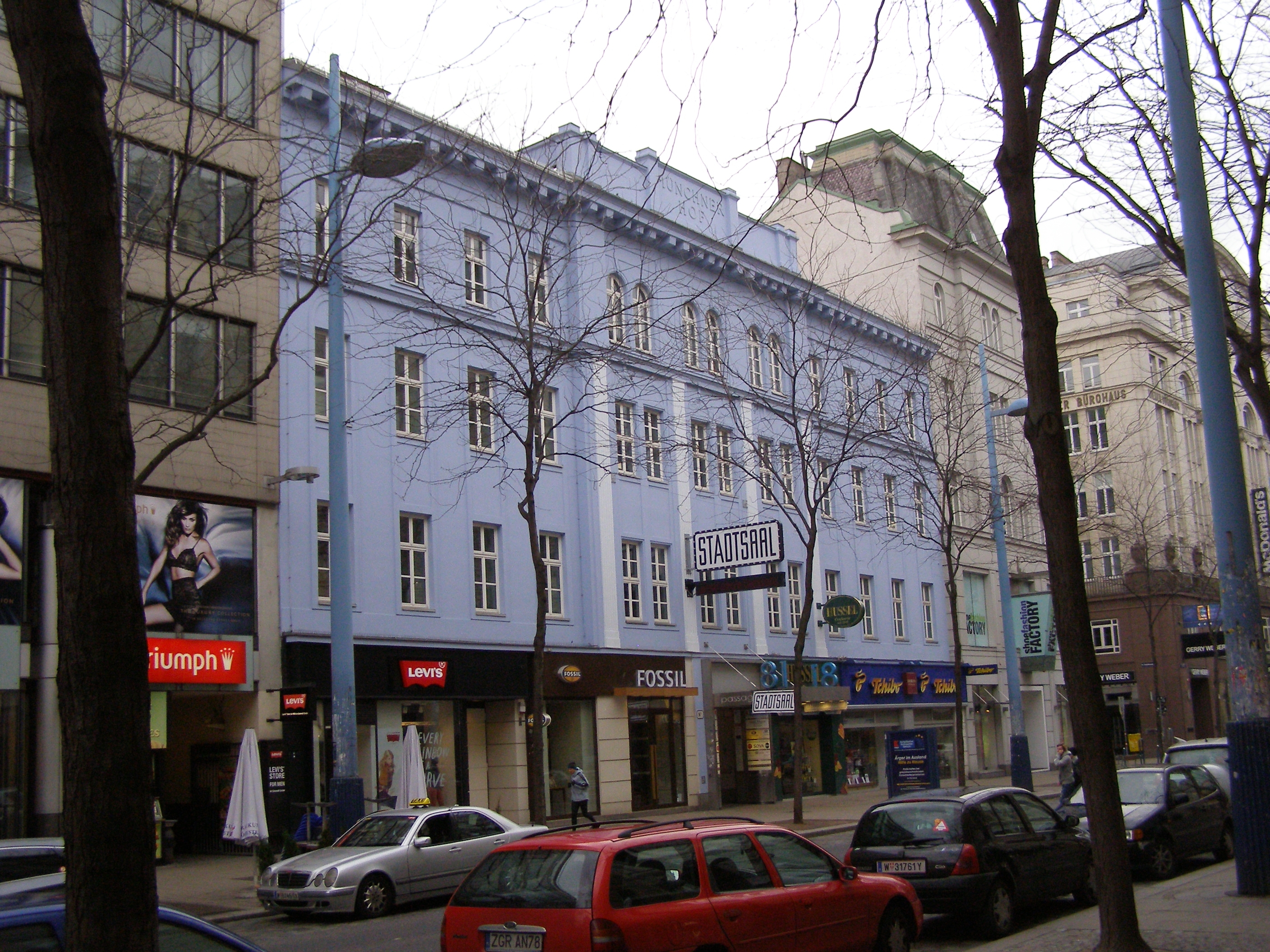 Vienna - Münchnerhof